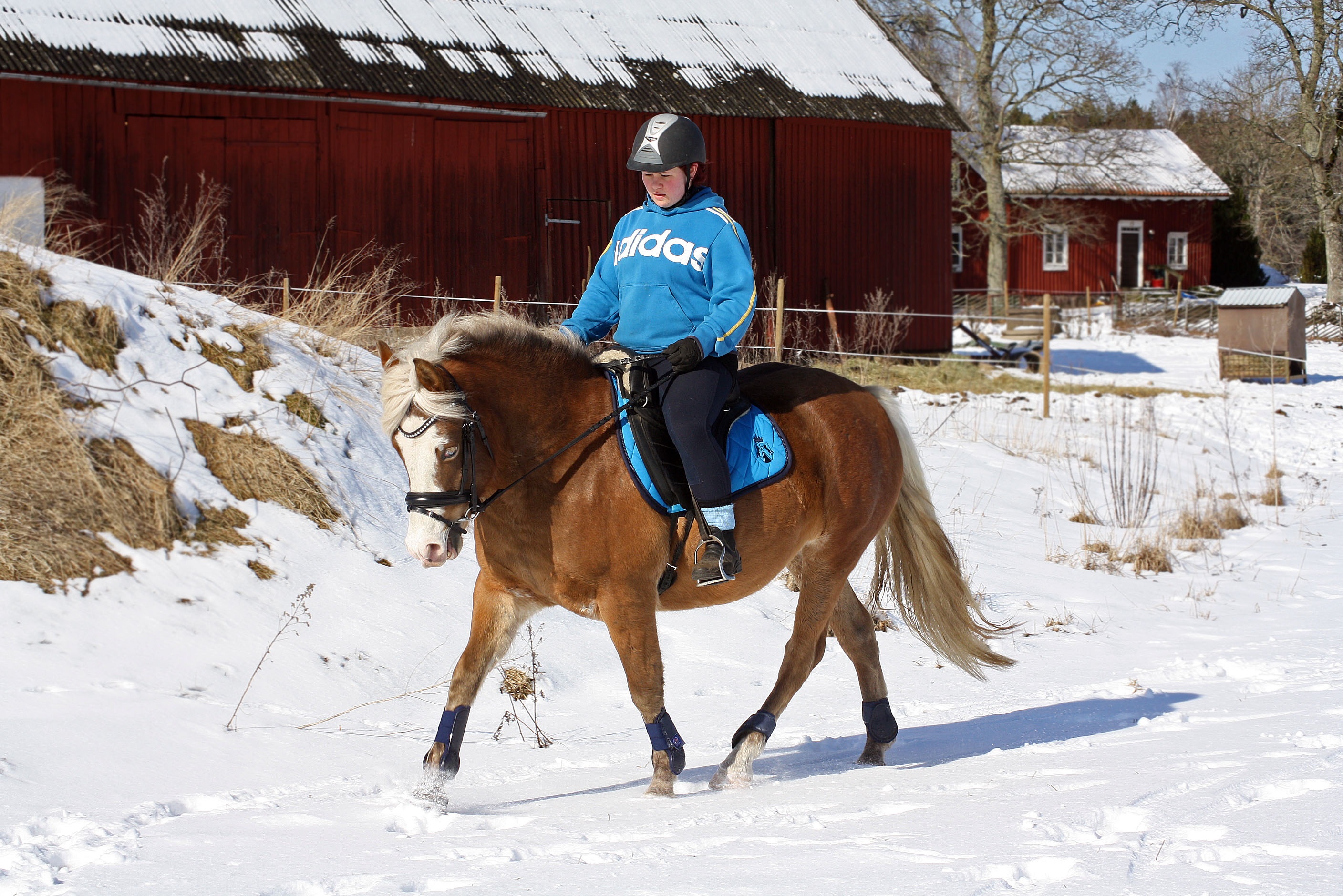 Estonian native, 4 years old (i.e. at the age where it's still mostly learning its job).